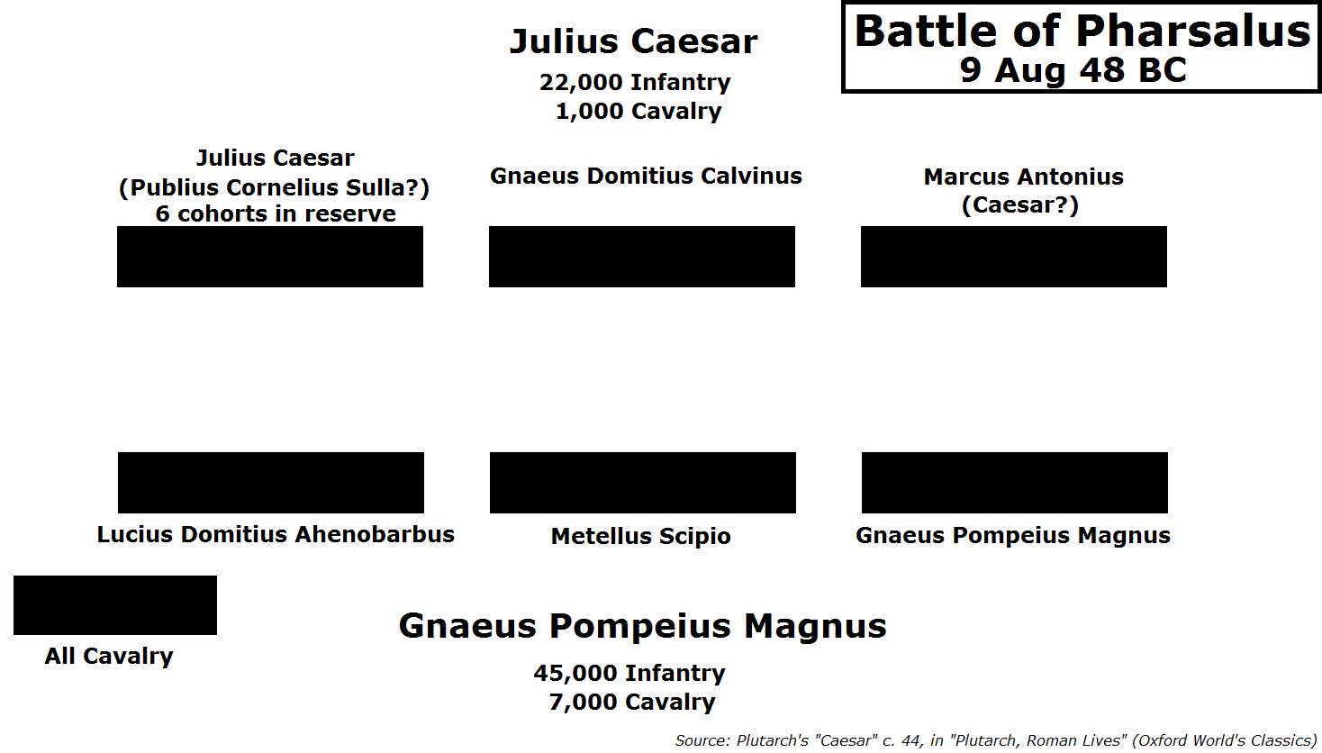 Formation of battle lines for the Battle of Pharsalus, 48 BC Created based on Plutarch: Caesar, c. 44; in Plutarch, Roman Lives, trans. Robin Waterfield, ISBN 9780192825025